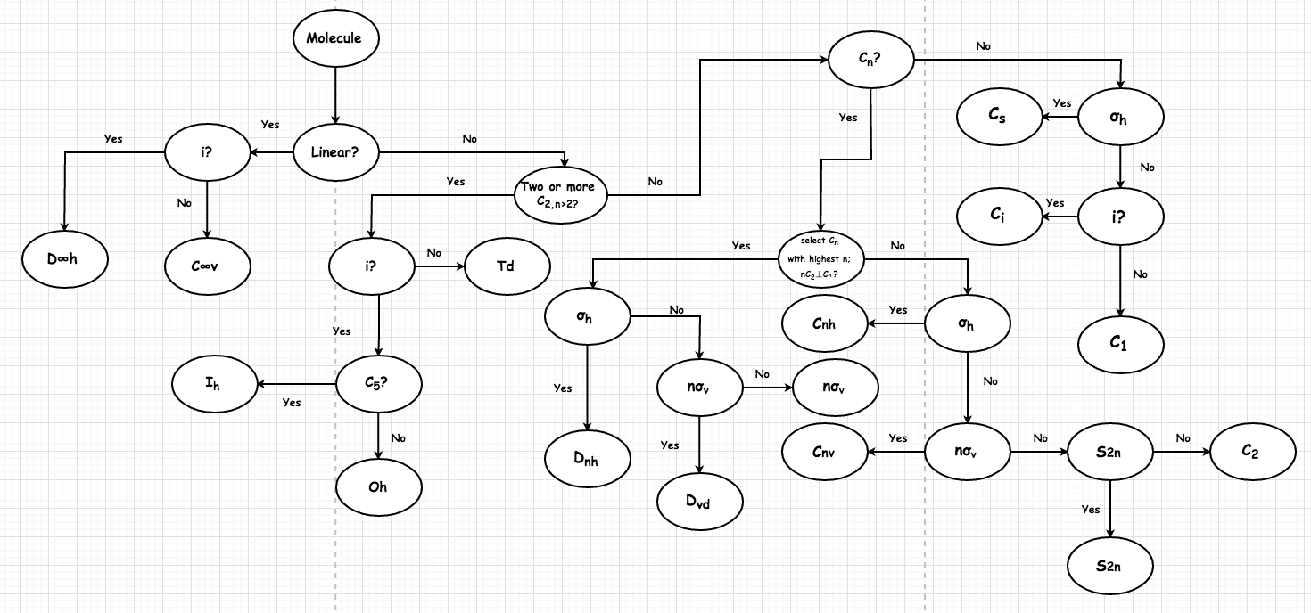 Point group chart used to classify compounds